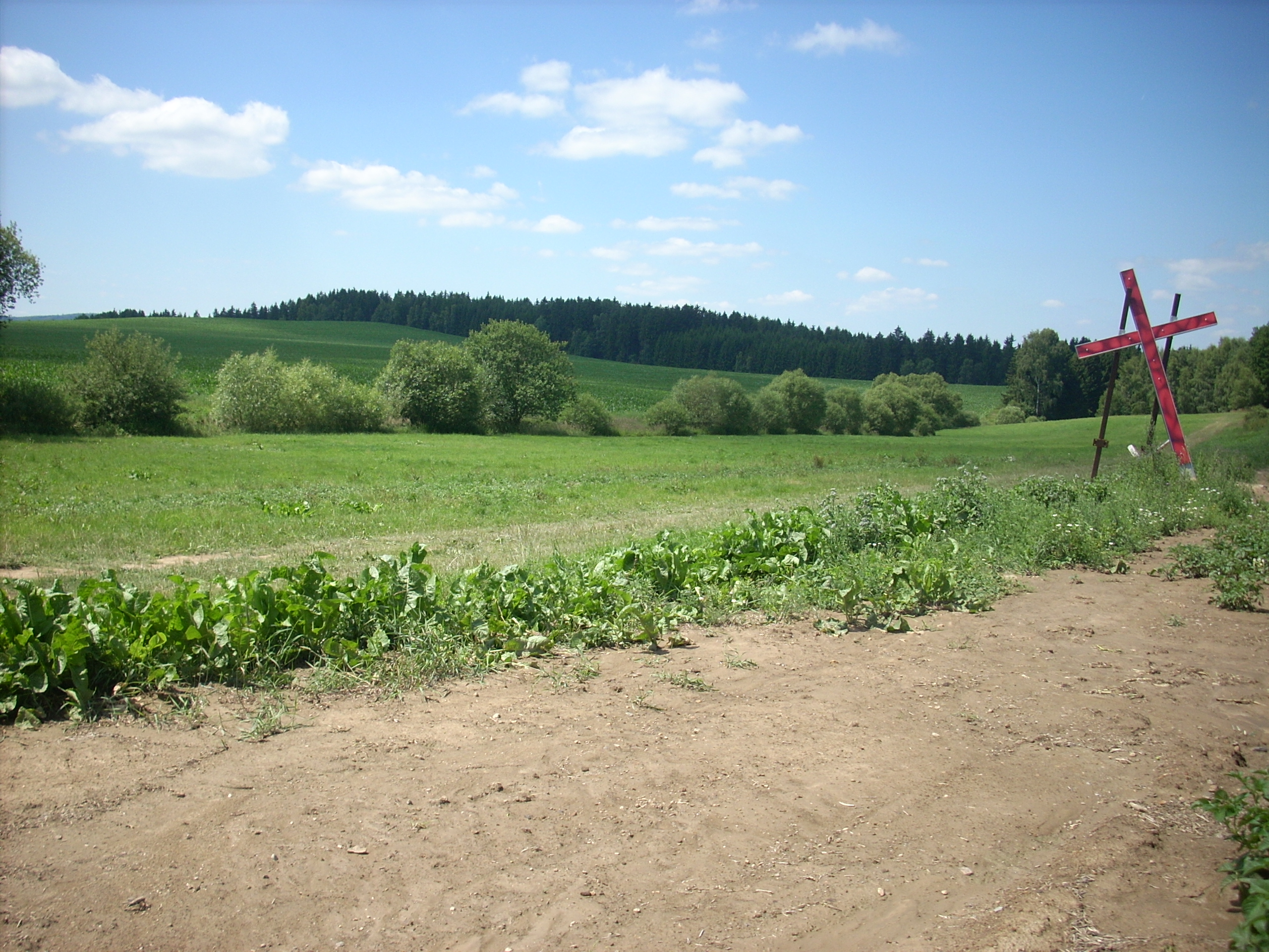 Meadow Budínka, Dobronín - new cross